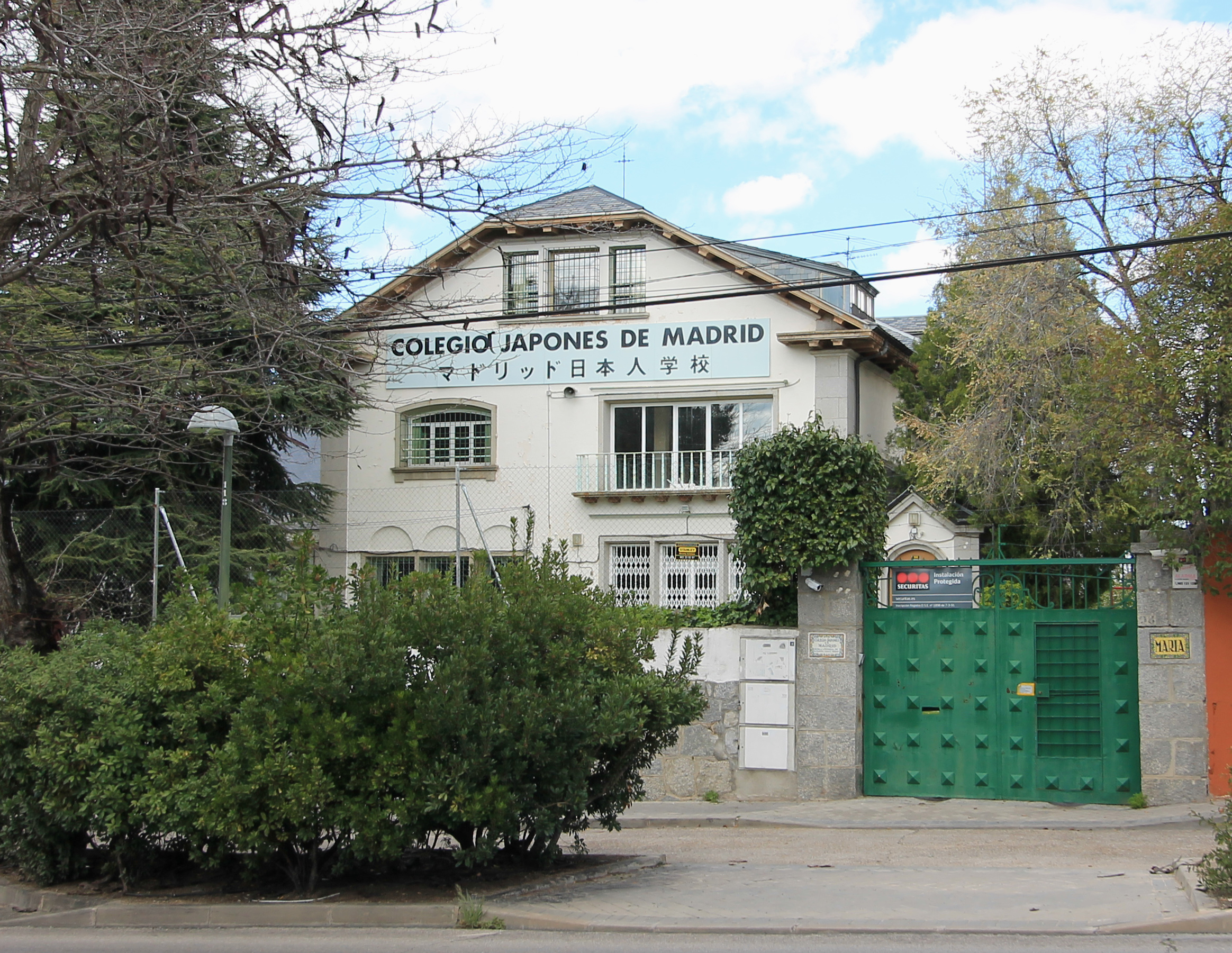 Façade of the Japanese School of Madrid (Spain).